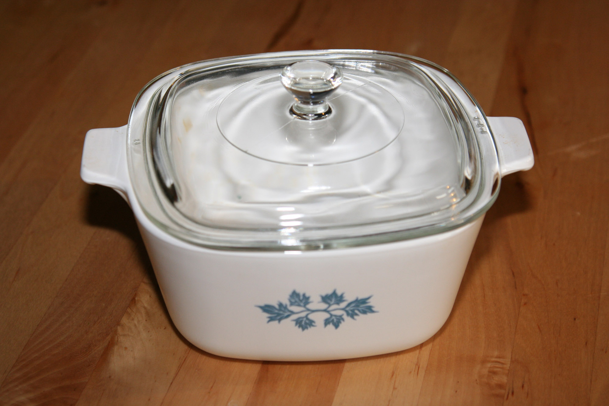 Deep dish